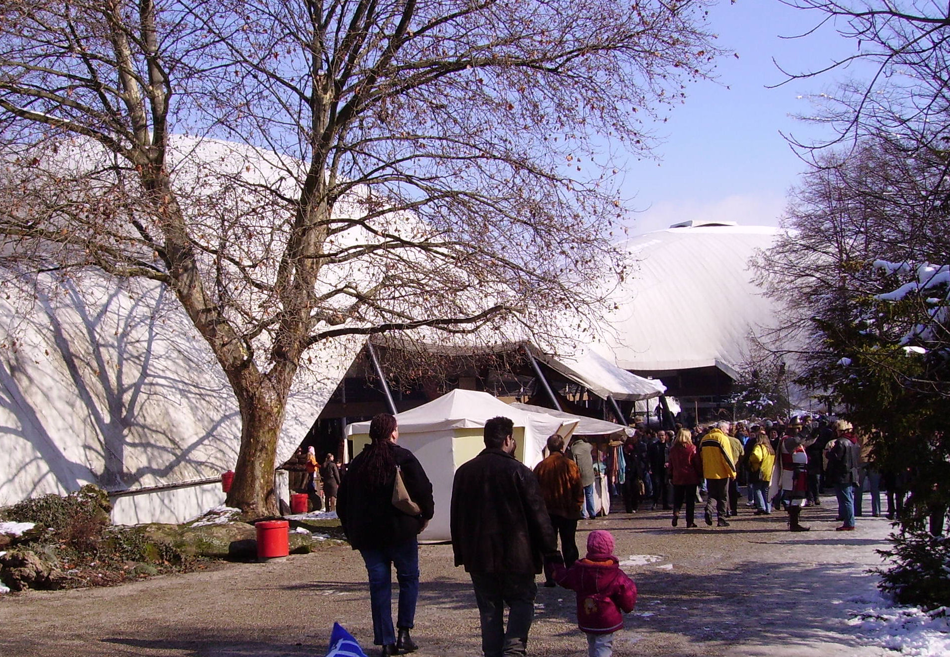 public park "Herzogenriedpark" in Mannheim, Germany